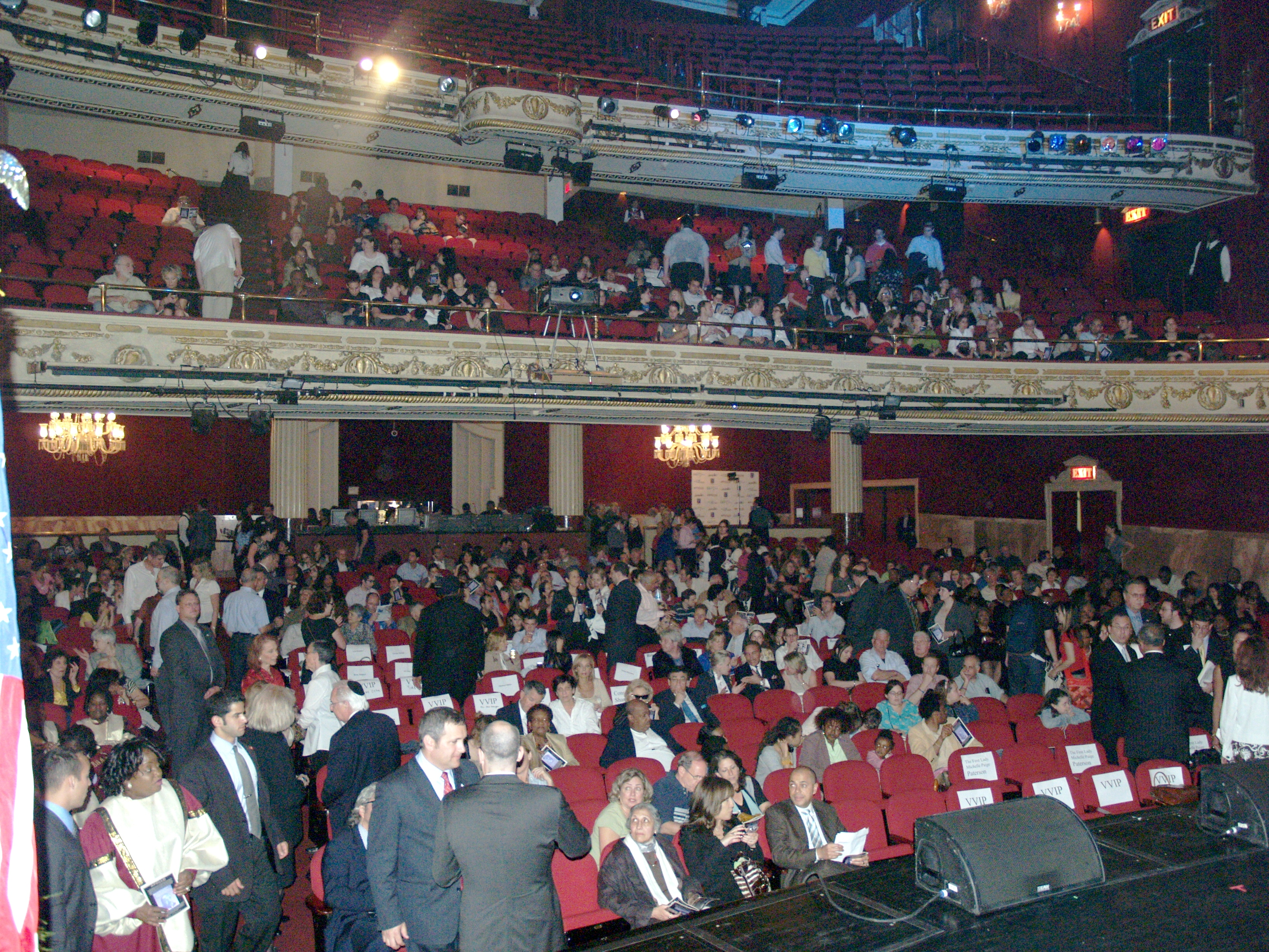 Apollo Theater in Harlem during an event celebrating African-American and Jewish ties during Israel's 60th anniversary.